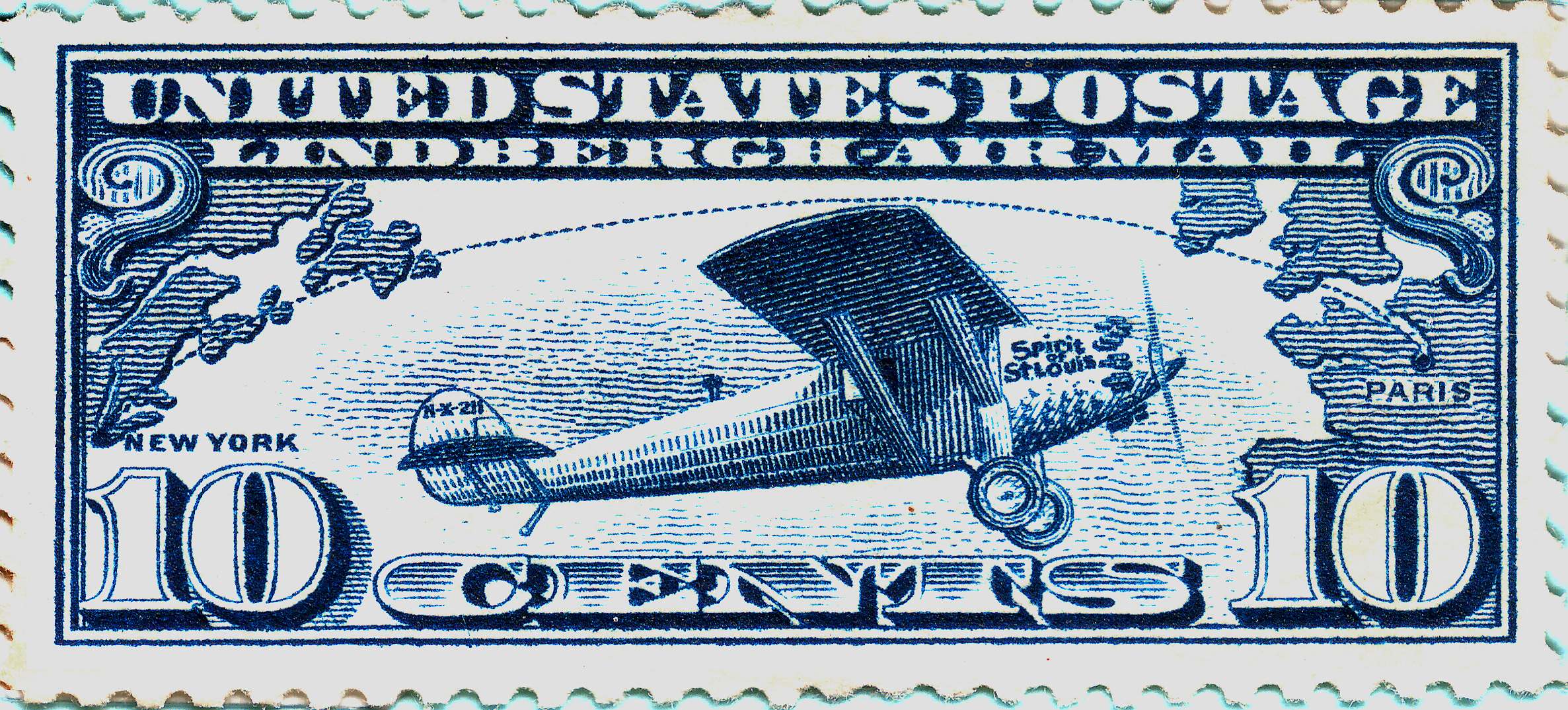 U.S. "Lindbergh Air Mail" Postage Stamp (Scott C-10) issued June 11, 1927.